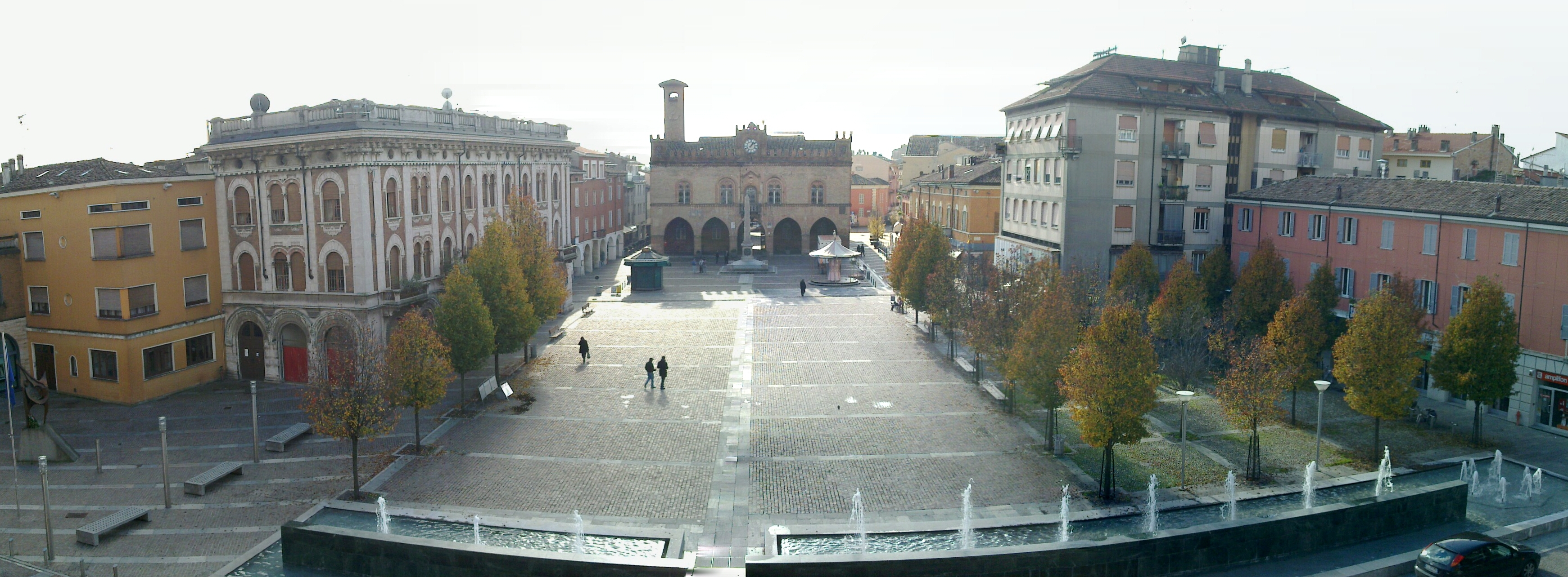 Panorama of Garibaldi square, Fidenza, province of Parma, Italy.